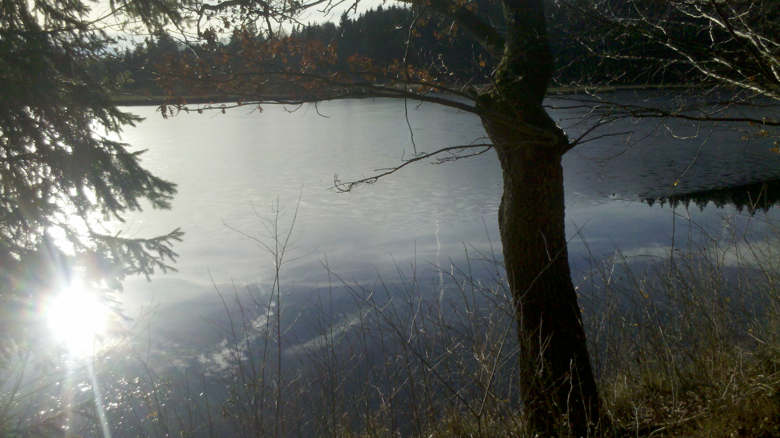 Stadler Weiher in Eberfing, Bavaria (Germany)